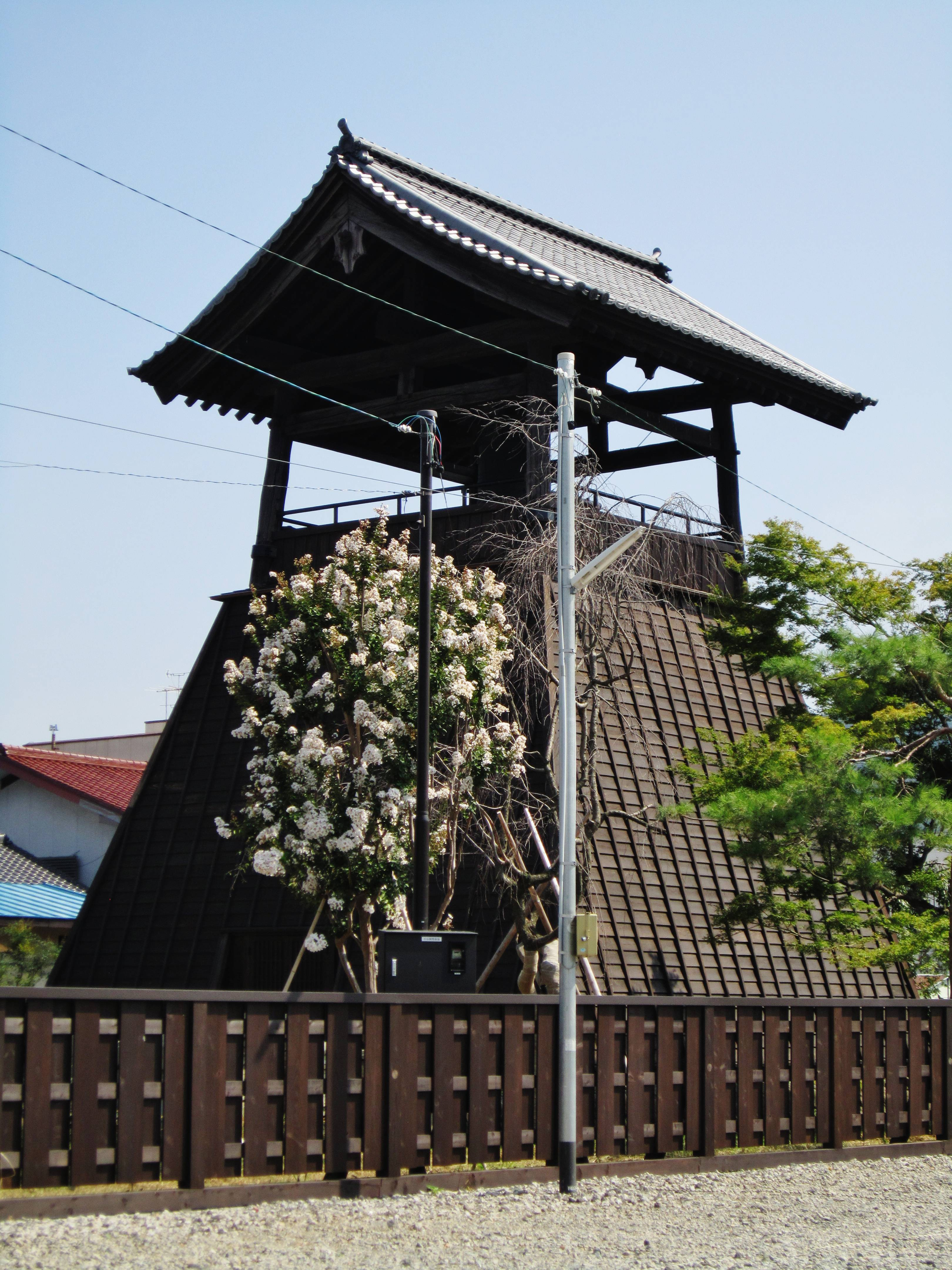 Matsushiro Domain bell tower.